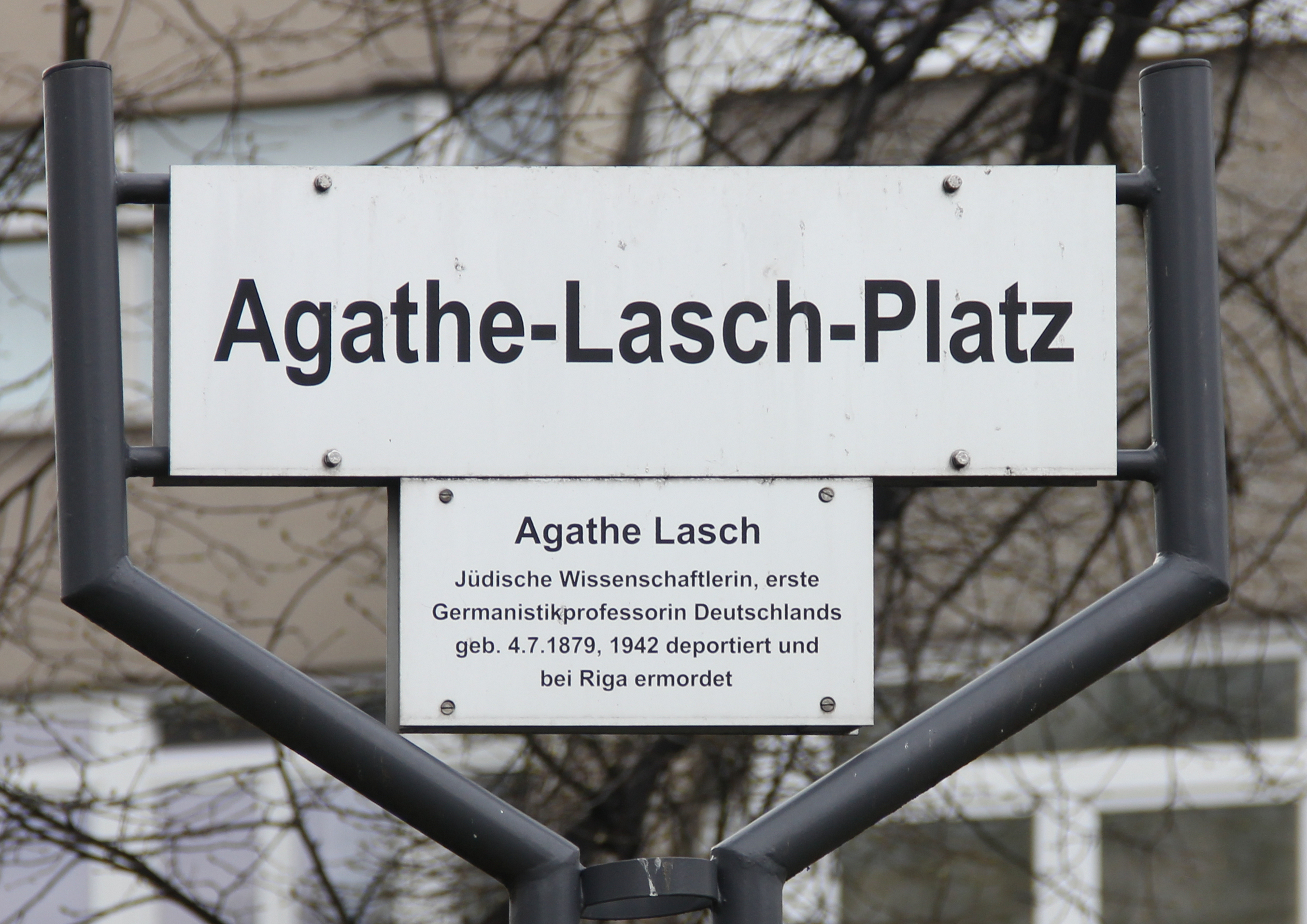 Memorial plaque, Agathe Lasch, Agathe-Lasch-Platz, Berlin-Halensee, Germany